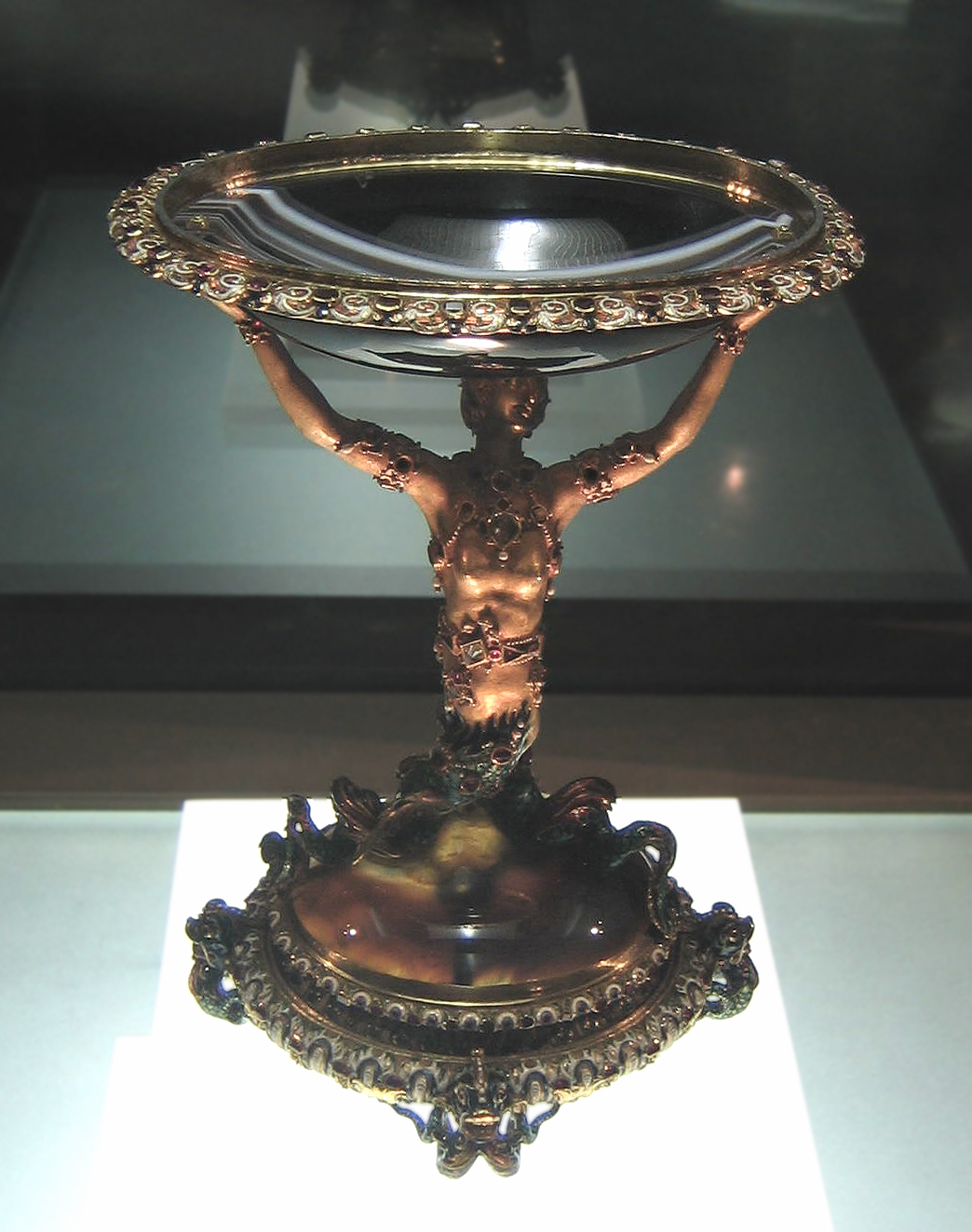 Onyx saltcellar with a golden mermaid. It's part of the Dauphin’s Treasure.